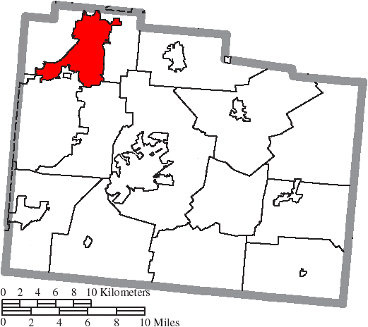 Map of the municipal and township boundaries of Greene County, Ohio, United States, as of the 2000 census, with the location of the city of Fairborn highlighted. Township borders are shown only in unincorporated areas in order to differentiate incorporated and unincorporated areas more clearly.